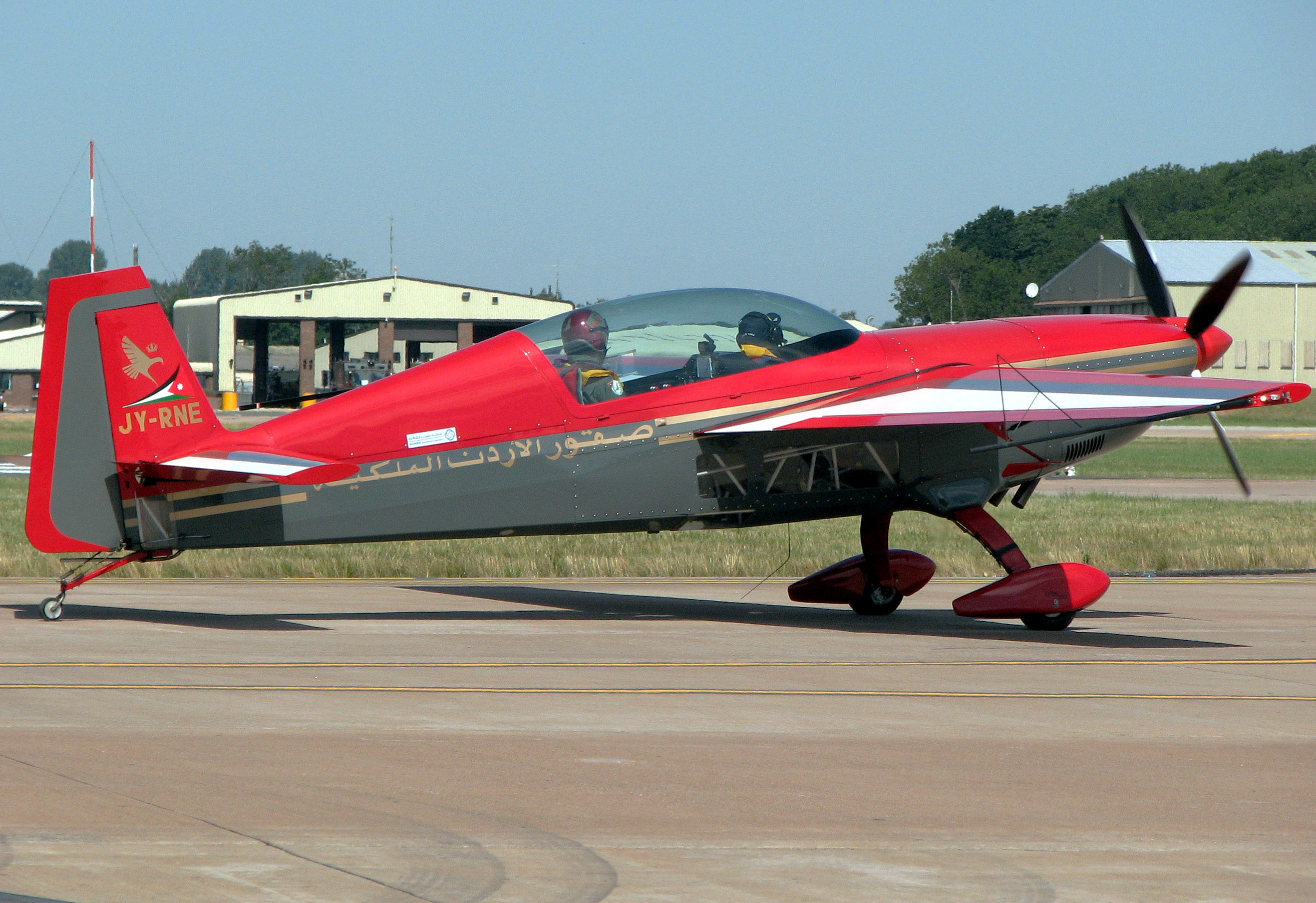 An Extra EA300S (JY-RNE) of the Royal Jordanian Falcons display team taxis for takeoff at the Royal International Air Tattoo, RAF Fairford, Gloucestershire, England. Photographed by Adrian Pingstone on July 17th 2006 and released to the public domain.